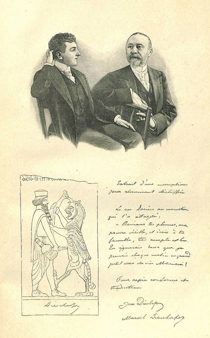 French archaeologists Jane and Marcel Dieulafoy (1844-1920)